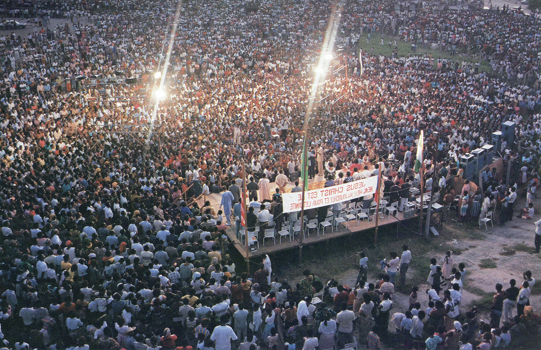 Richard Roberts Crusade-Kinshasa, Zaire 1987